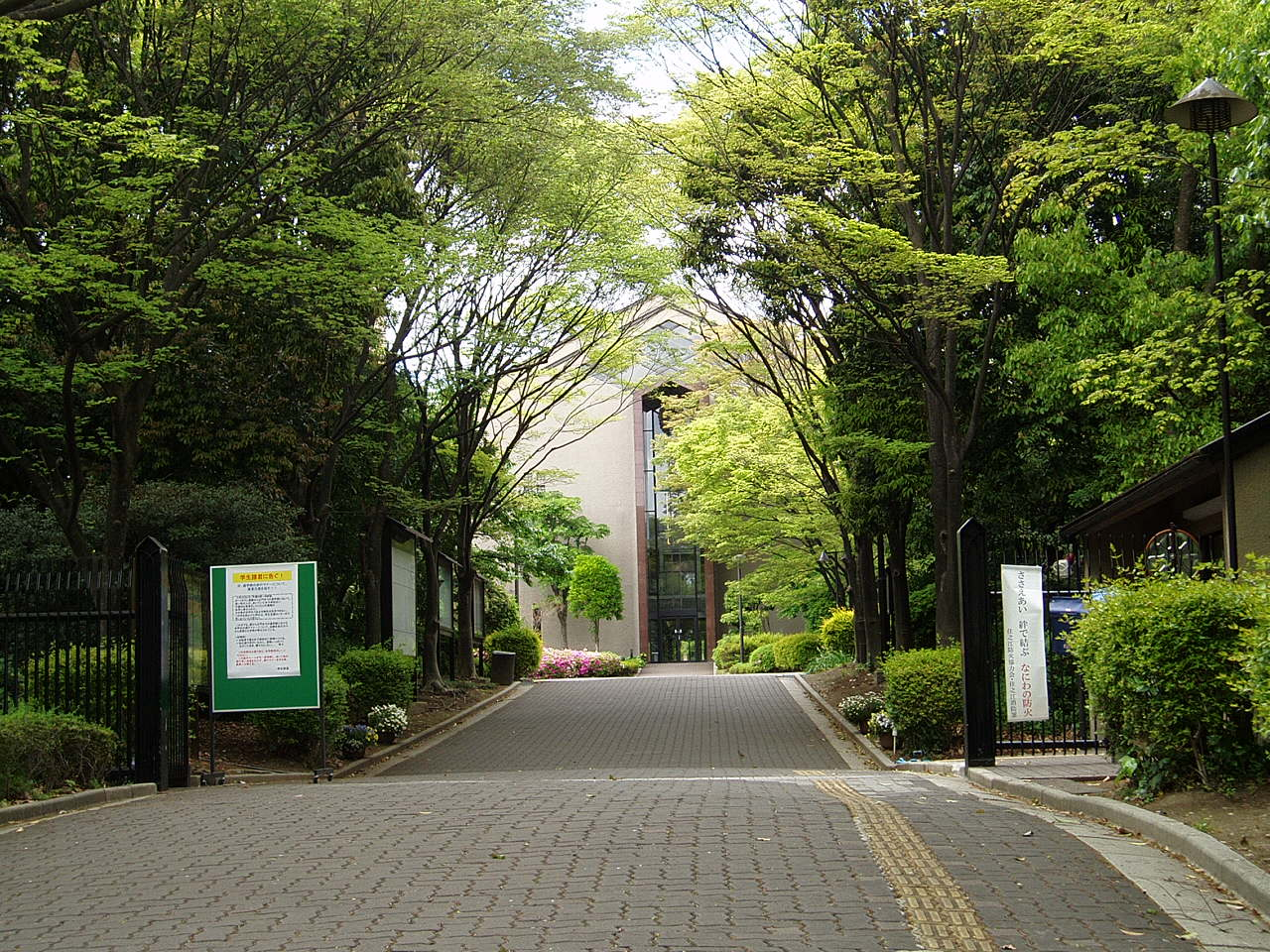 Main entrance to Soai University located in Suminoe-ku, Osaka, Japan.